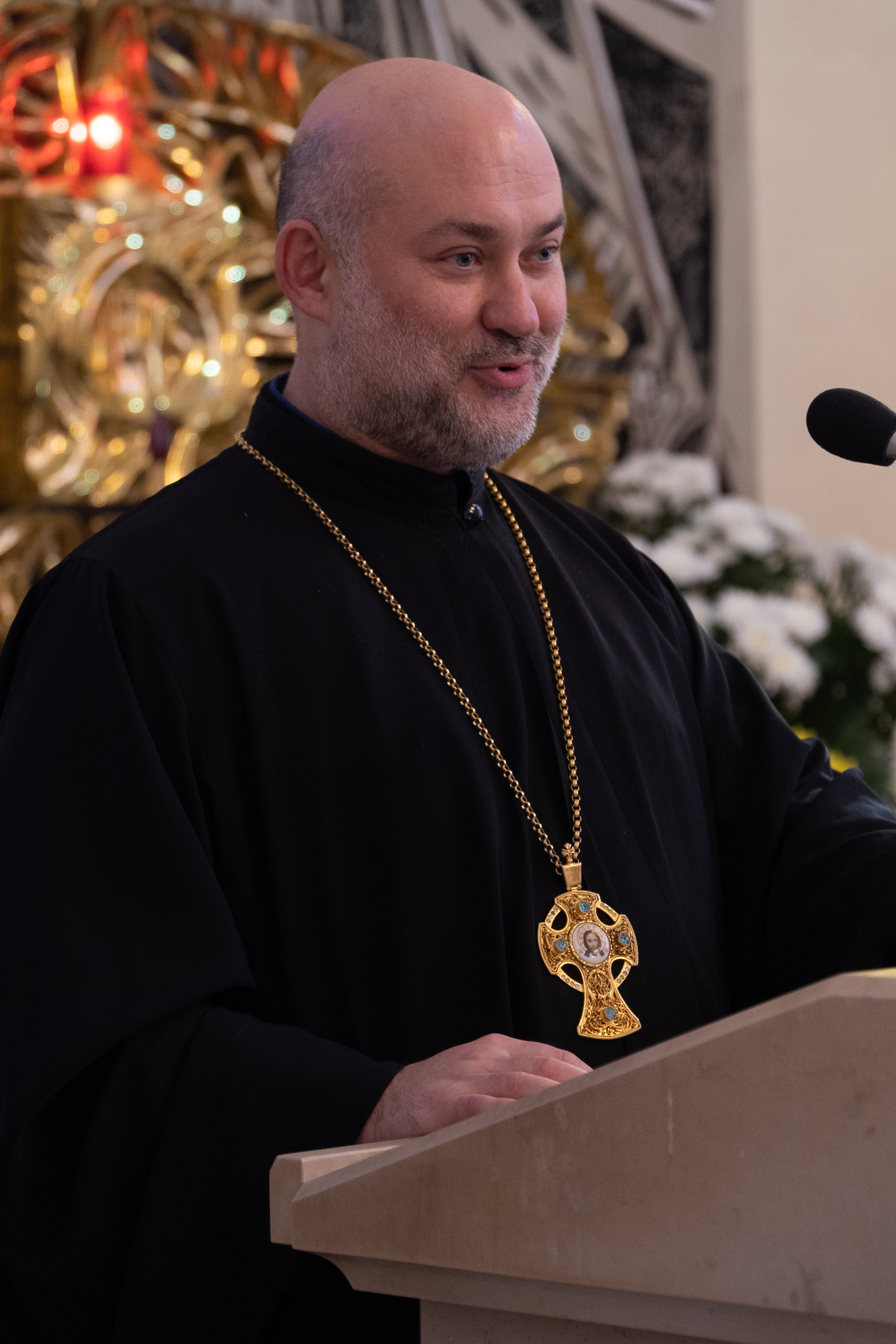 Wasyl Howera